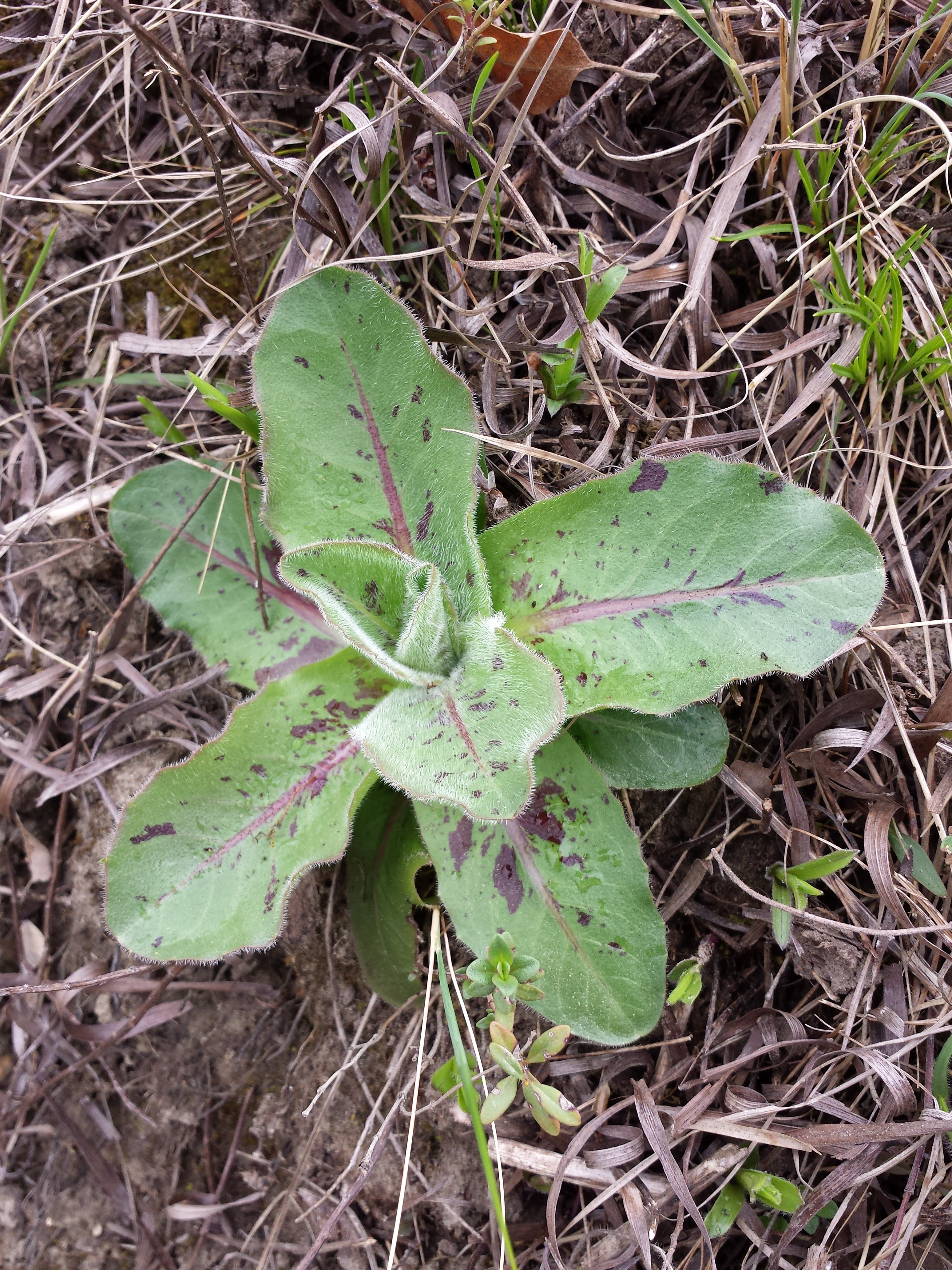 Rosette Taxon: Hypochaeris maculata (sensu Fischer et al. EfÖLS 2008 ISBN 978-3-85474-187-9) Location: Wartberg near Ulrichskirchen, district Mistelbach, Lower Austria - ca. 240 m a.s.l. Habitat: semi dry grassland